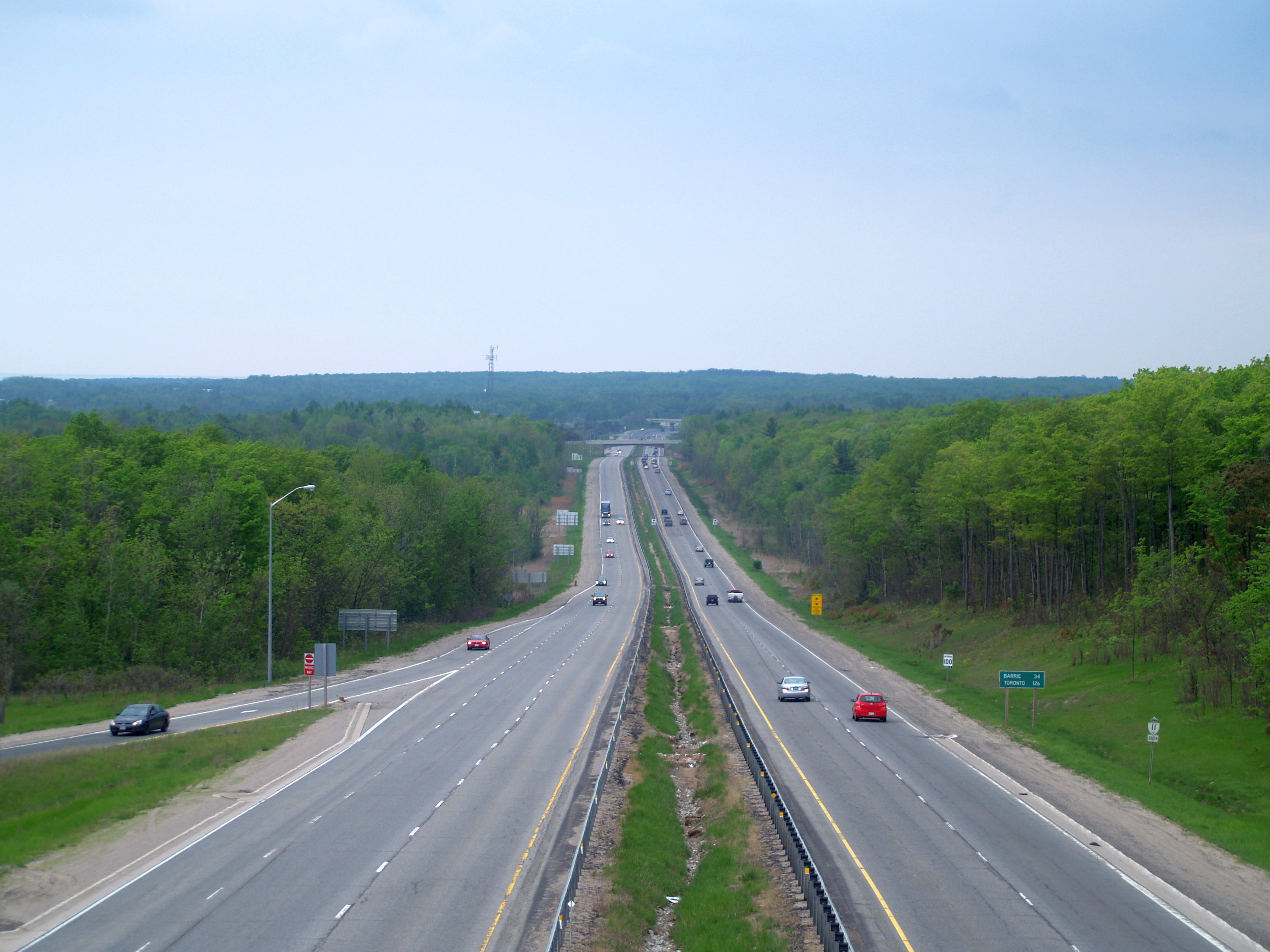 Highway 11 facing south in Orillia, Ontario. Taken from Highway 12 overpass.